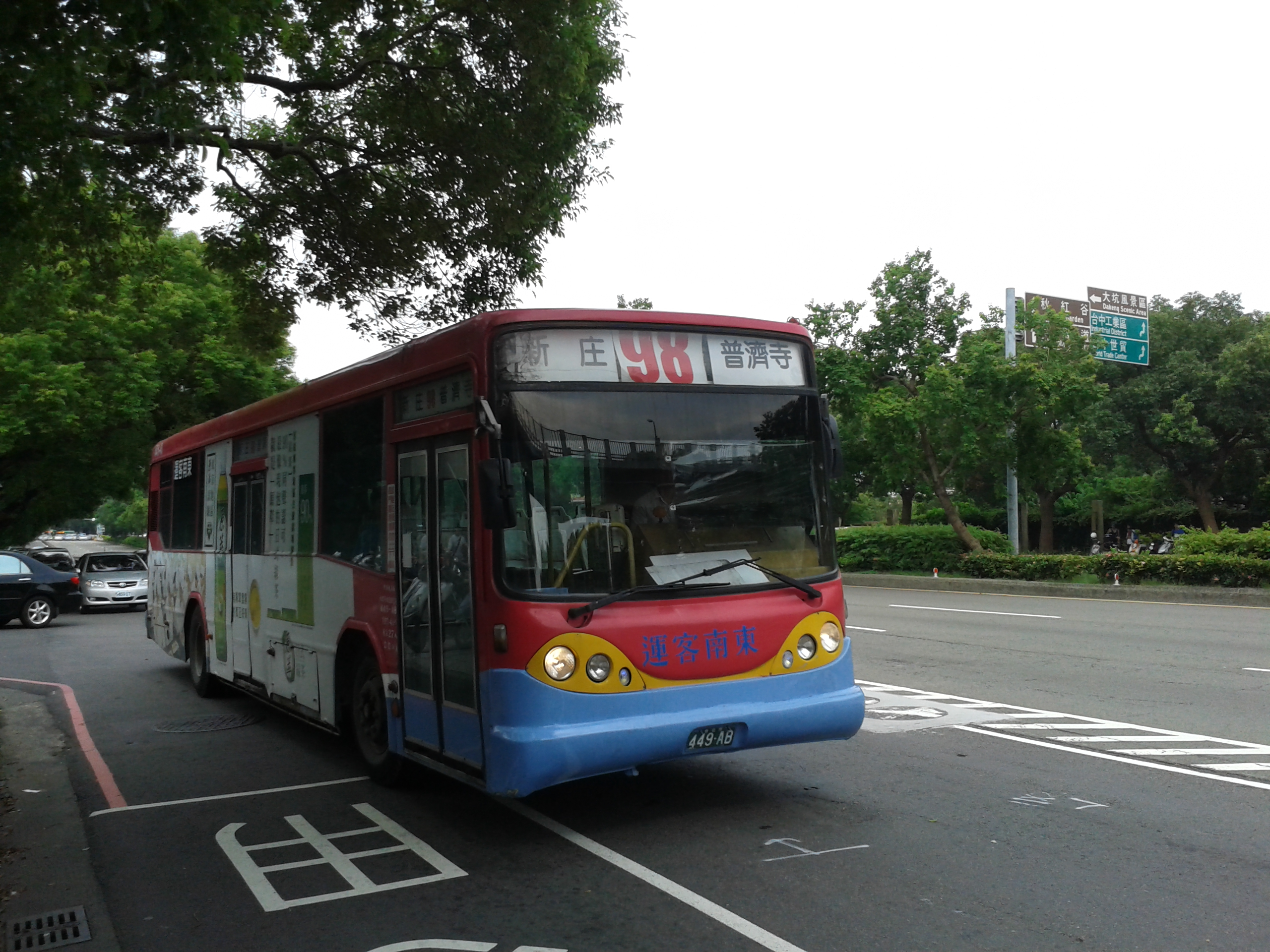 Taichung City Bus Route 98